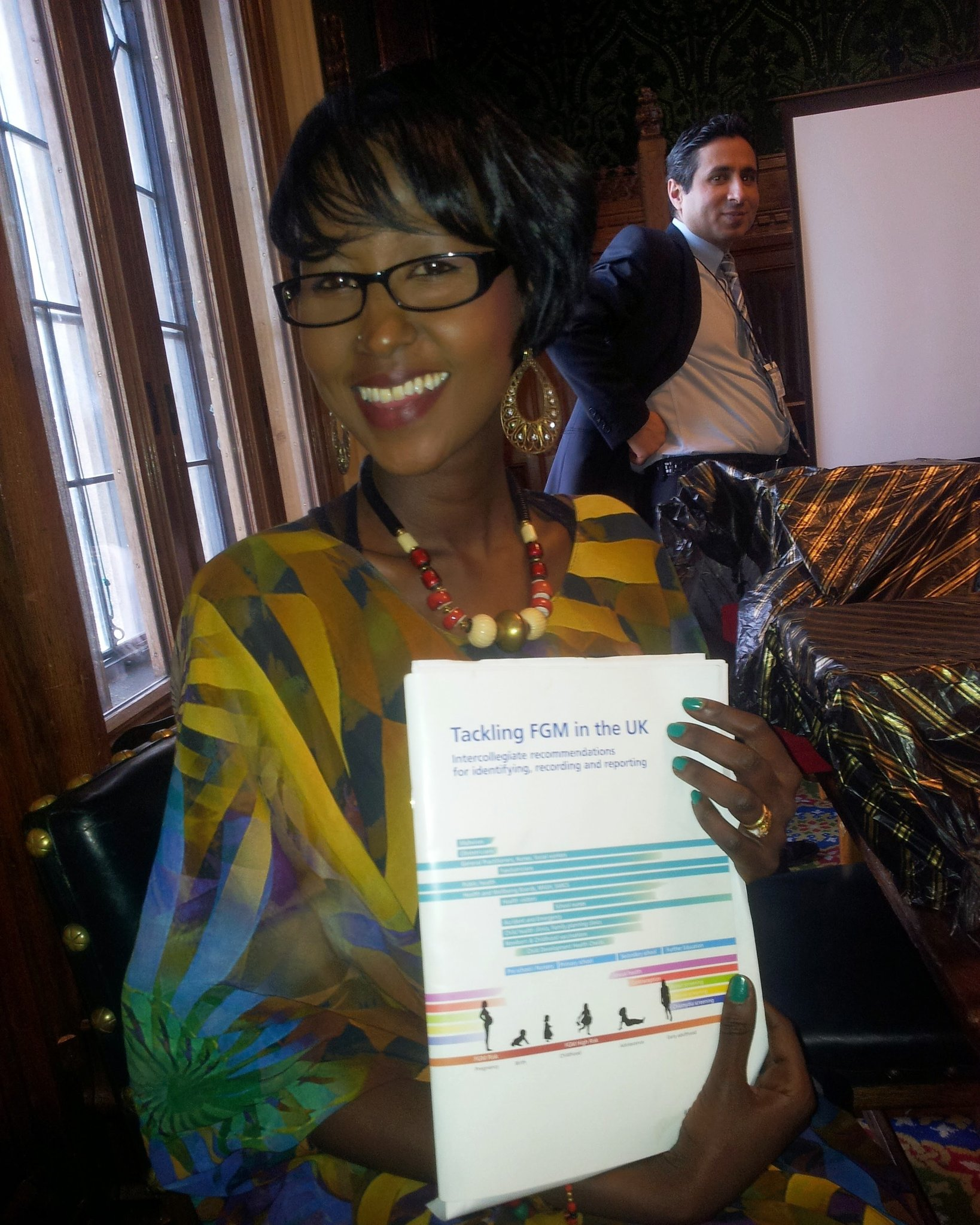 Hoda Ali, Community Outreach Project Manager For Safeguarding in Perivale Primary School. She is the subject of the Brave:Edit Wikipedia editathon at Amnesty International in London, 20th May 2018